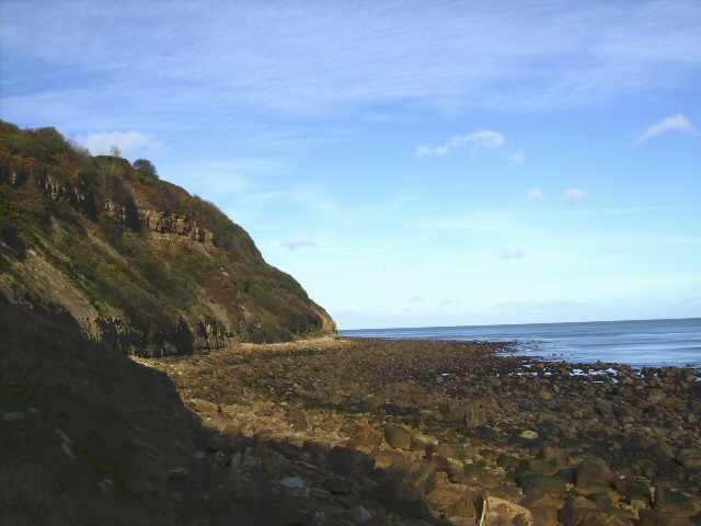 Looking towards Herbert Hole This was the way into square TA0198 north of Hayburn Wyke - only possible safely at low tide.